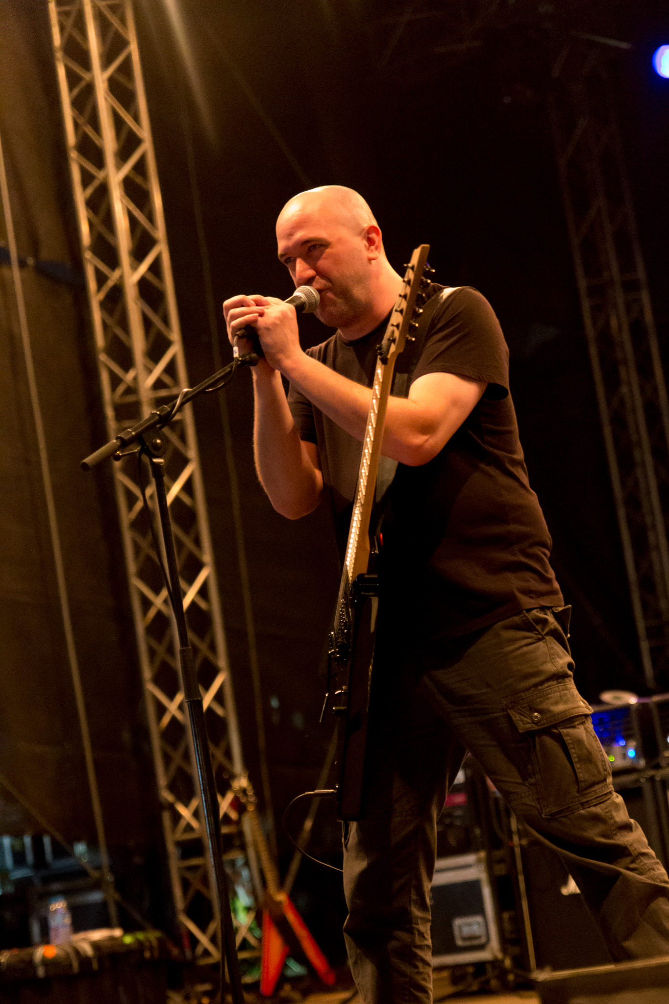 Nile performing at the With Full Force Festival, July 2014